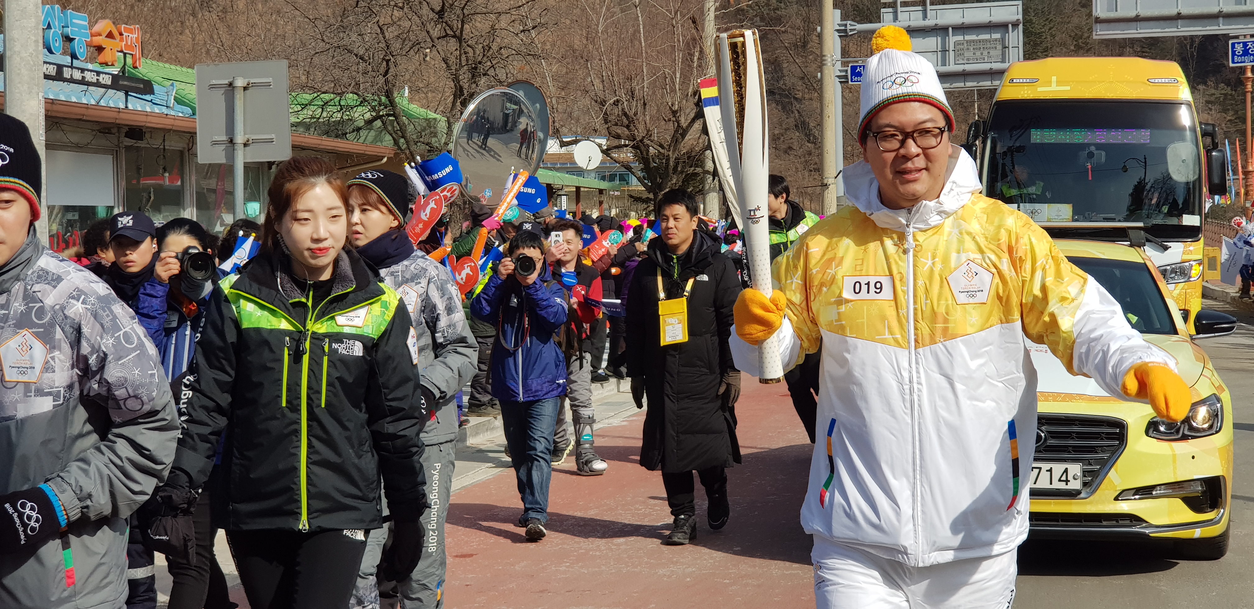 Former Pro-Hockey Player Martin Hyun was selected as Olympic Torch bearer for the 2018 PyeongChang Winter Olympics